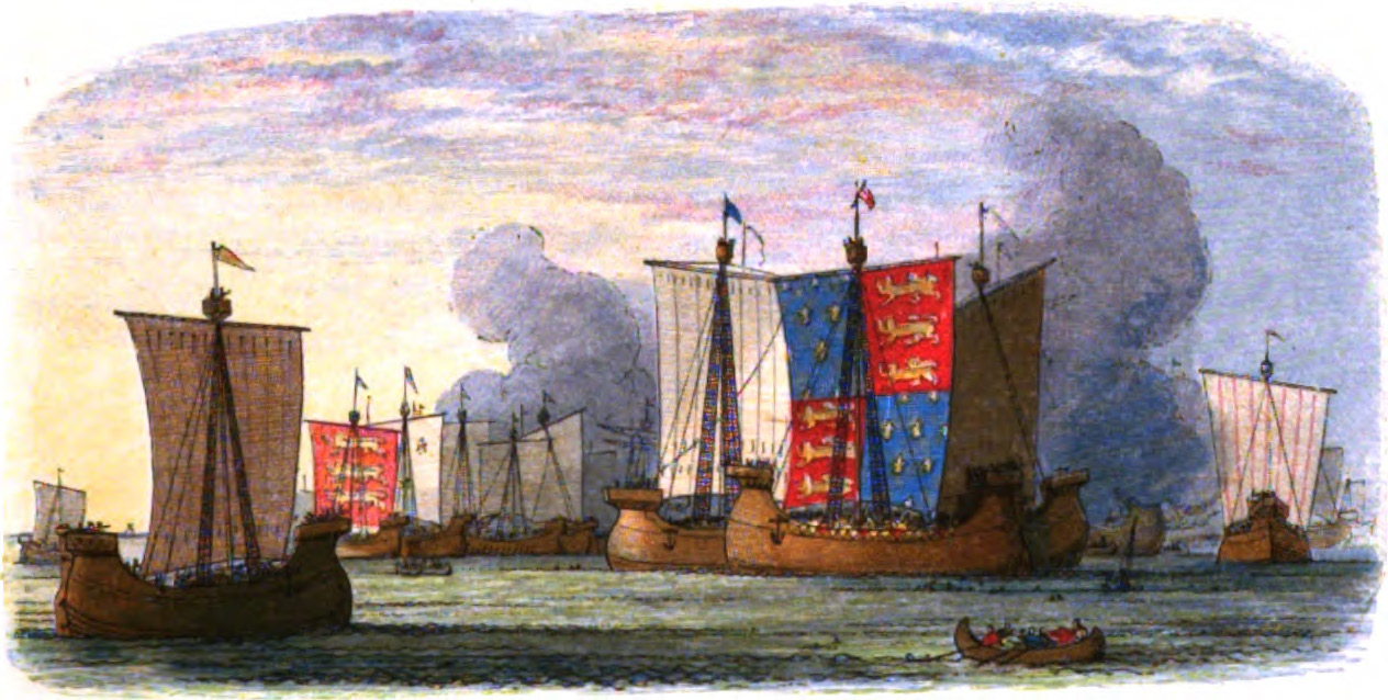 The English victory in the Battle of Sluys ensures that the Hundred Years' War will take place in the lands of France.